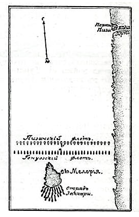 Battle of Meloria (1284)